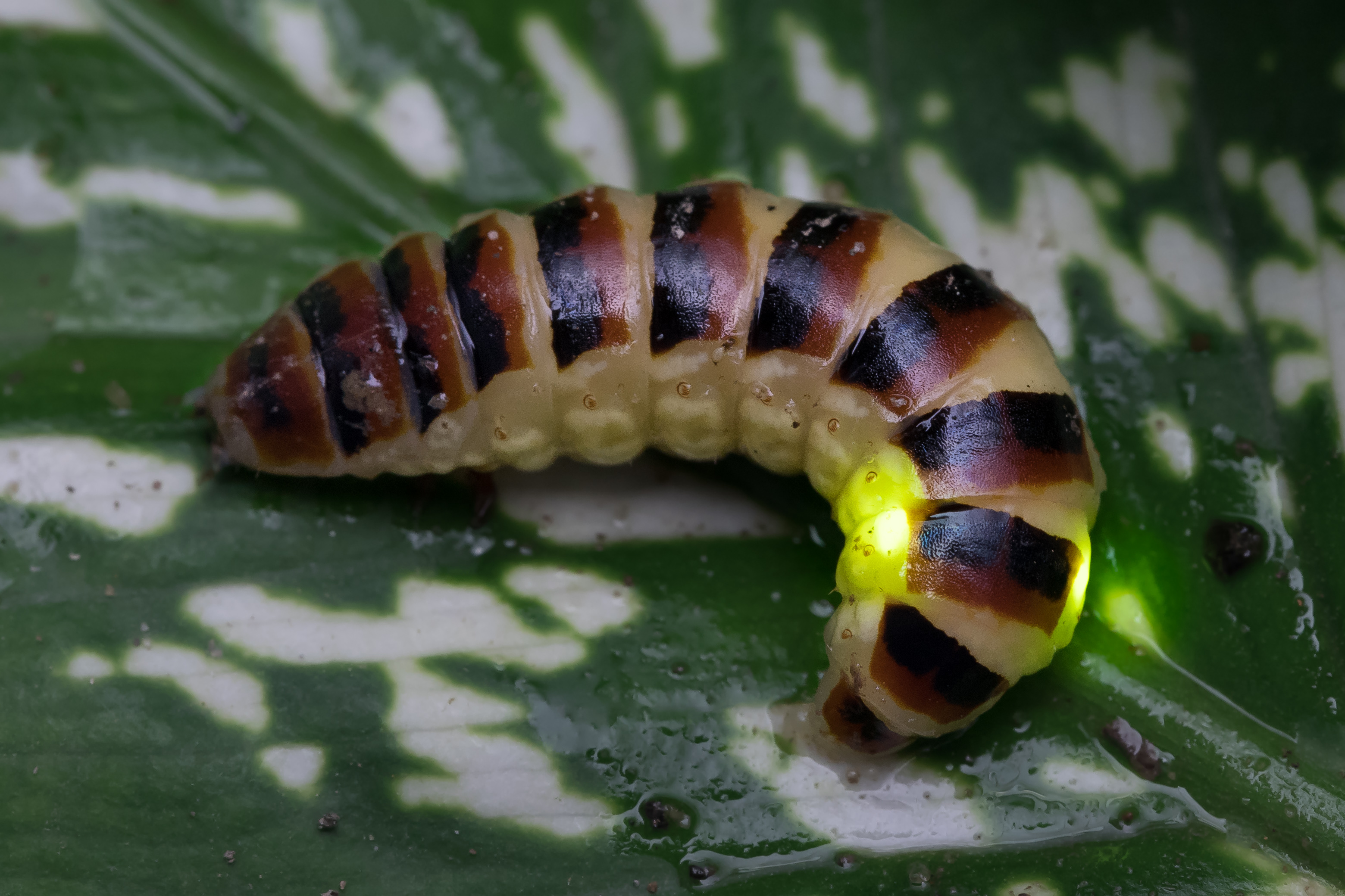 Close-up view of a bioluminescent beetle Elateroidea (Lampyridae Ototretinae Stenocladius or Rhagophthalmidae), on a leaf. This specimen measures about 20 mm (0.79 in). The species produces and emits light, via a chemical reaction during which chemical energy is converted into light energy. The principal chemical reaction in bioluminescence involves some light-emitting molecule and an enzyme, generally called the luciferin and the luciferase, respectively. Oxidation of organic compounds induces photon emission. The intensity of this light can be perceived by the human eye in a radius of 2 m (6.6 ft). This is a long-exposure photograph (1.3 s) made with a tripod and a macro lens, in the middle of the night (2 am). In conditions of ambient darkness, the adjustment of the manual focus is difficult, and the camera settings (ISO and depth of field) should be done according to the mobility of the living organism, which may lead to motion blurs. At any time, the insect can also decrease the intensity or even completely stop emitting its light (example here). A soft and diffuse auxiliary lamp has been brought to reveal the details of the animal. Bioluminescent beetle species are in regression in the World because of the phenomenon of light pollution, insecticides and climate change. This specimen comes from the island of Don Det, Si Phan Don, Laos, a wild area far from any major city. This image won the 1st prize of the Wiki Science Competition category Wildlife and nature from France.